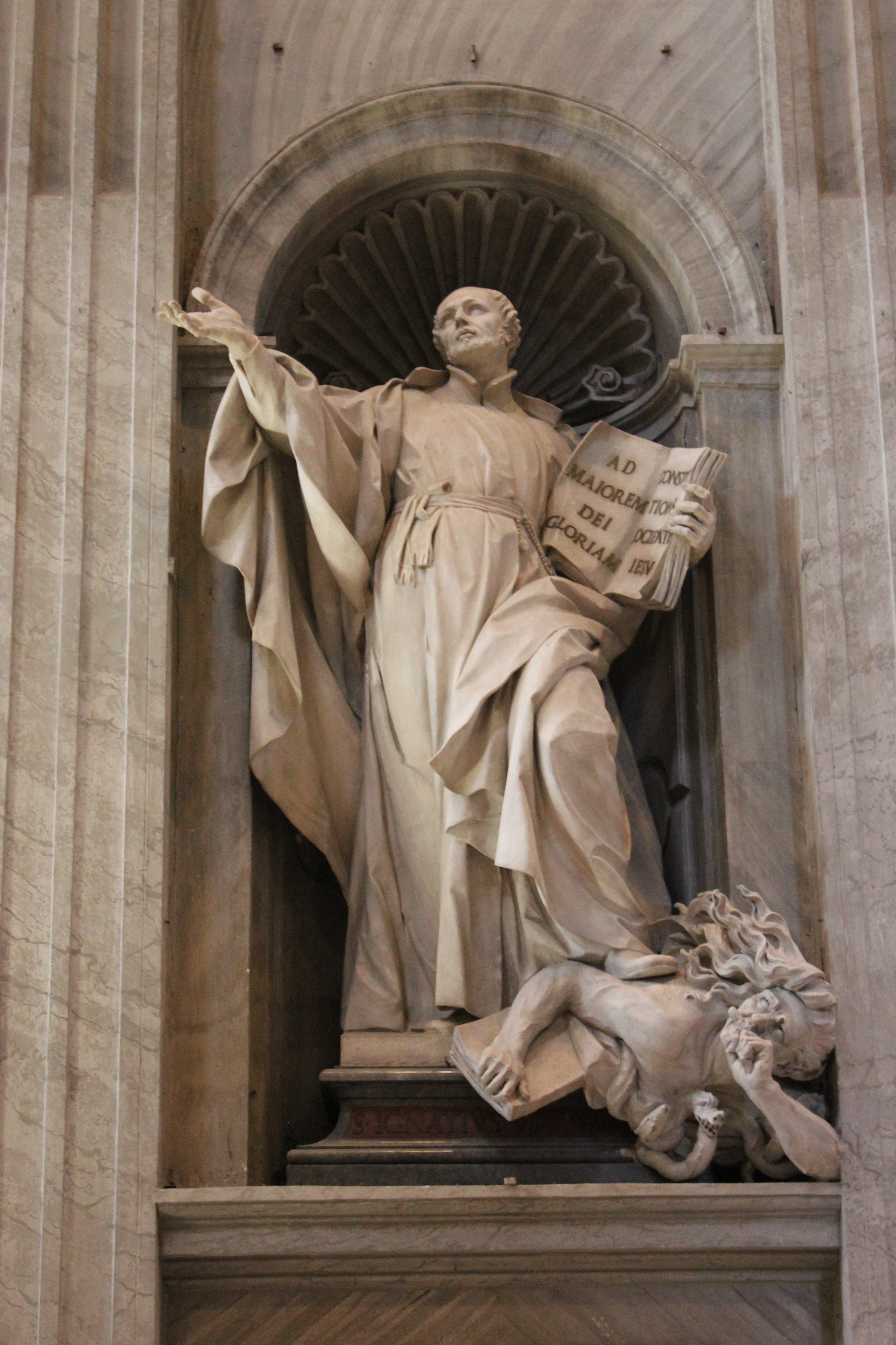 Camillo Rusconi (1658–1728). Statue of St. Ignatius of Loyola at St. Peter's Basilica, Vatican (1733)